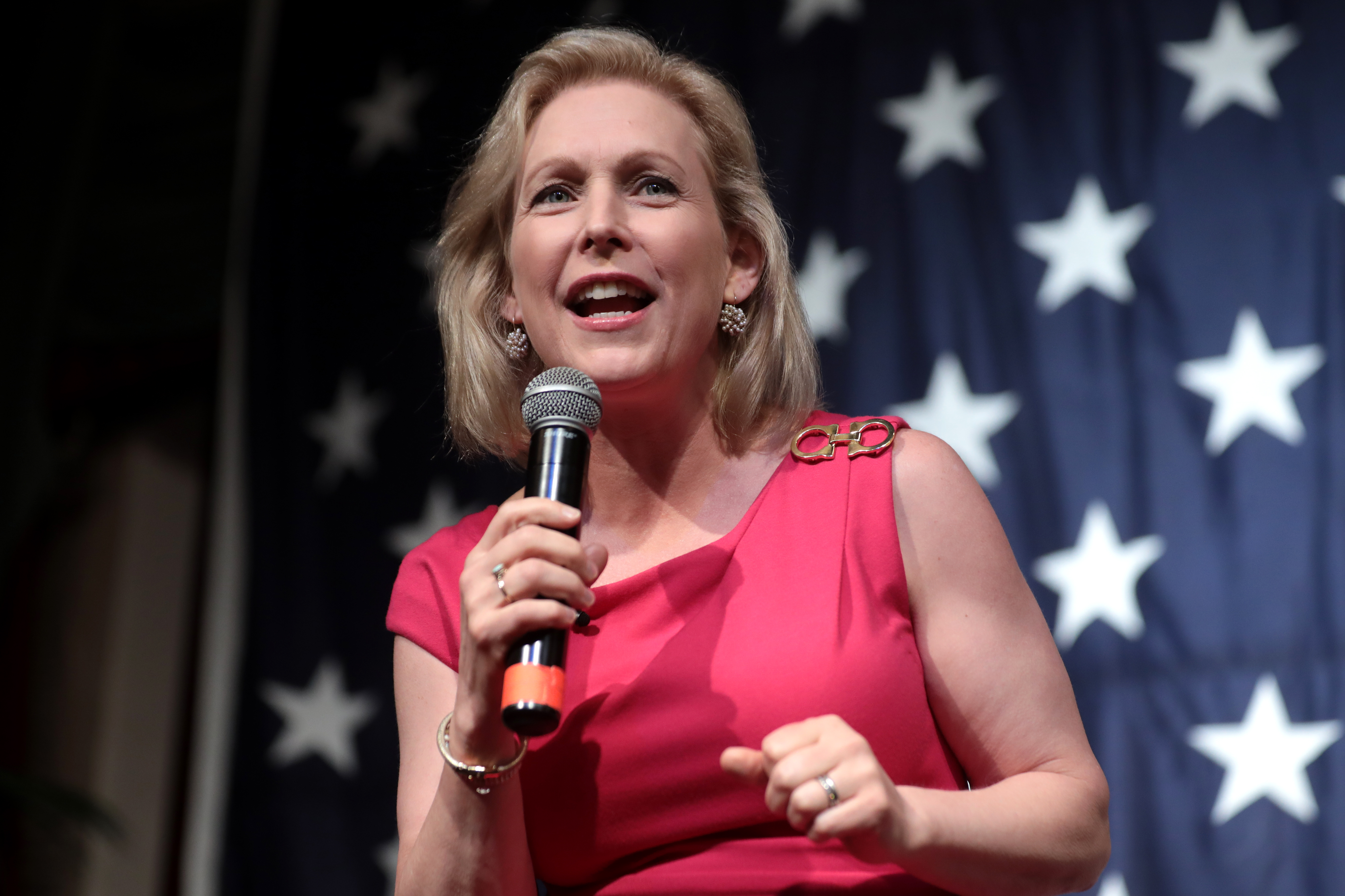 U.S. Senator Kirsten Gillibrand speaking with attendees at the 2019 Iowa Democratic Wing Ding at Surf Ballroom in Clear Lake, Iowa.